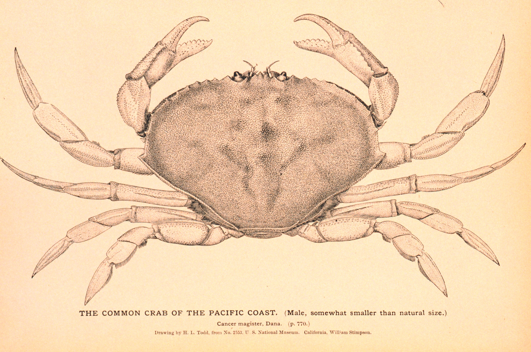 Plate 261. The Common Crab of the Pacific Coast. (Male.) Cancer magister, James Dwight Dana. From "The Fisheries and Fisheries Industries of the United States" by George Brown Goode.Image ID: figb0533, Historic NMFS Collection [1]